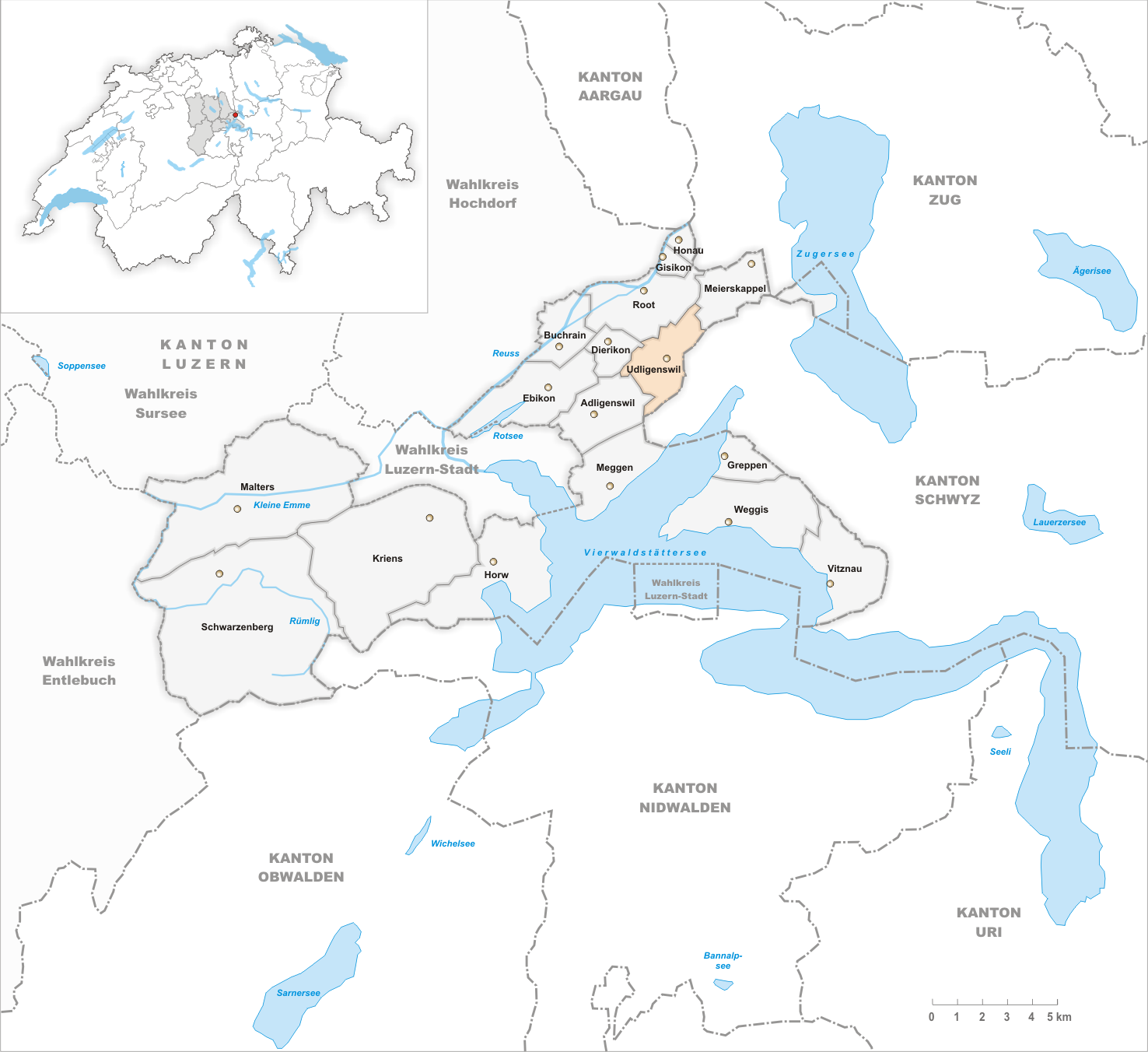 Municipality Udligenswil